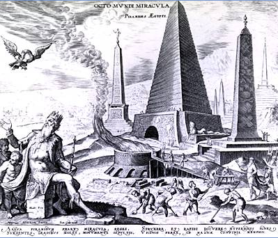 one of Maarten Heemskerck's Seven Wonders of the Ancient World